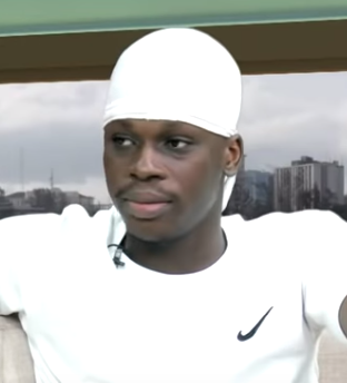 Fireboy DML's interview on Wazobia Max TV